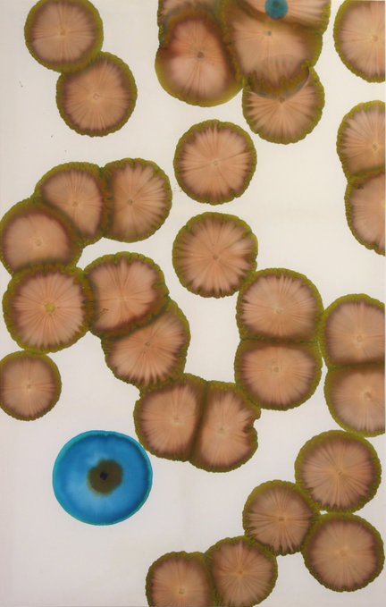 collectivity painting no. IV, 2018 pigment, water on cotton 210 x 135 cm